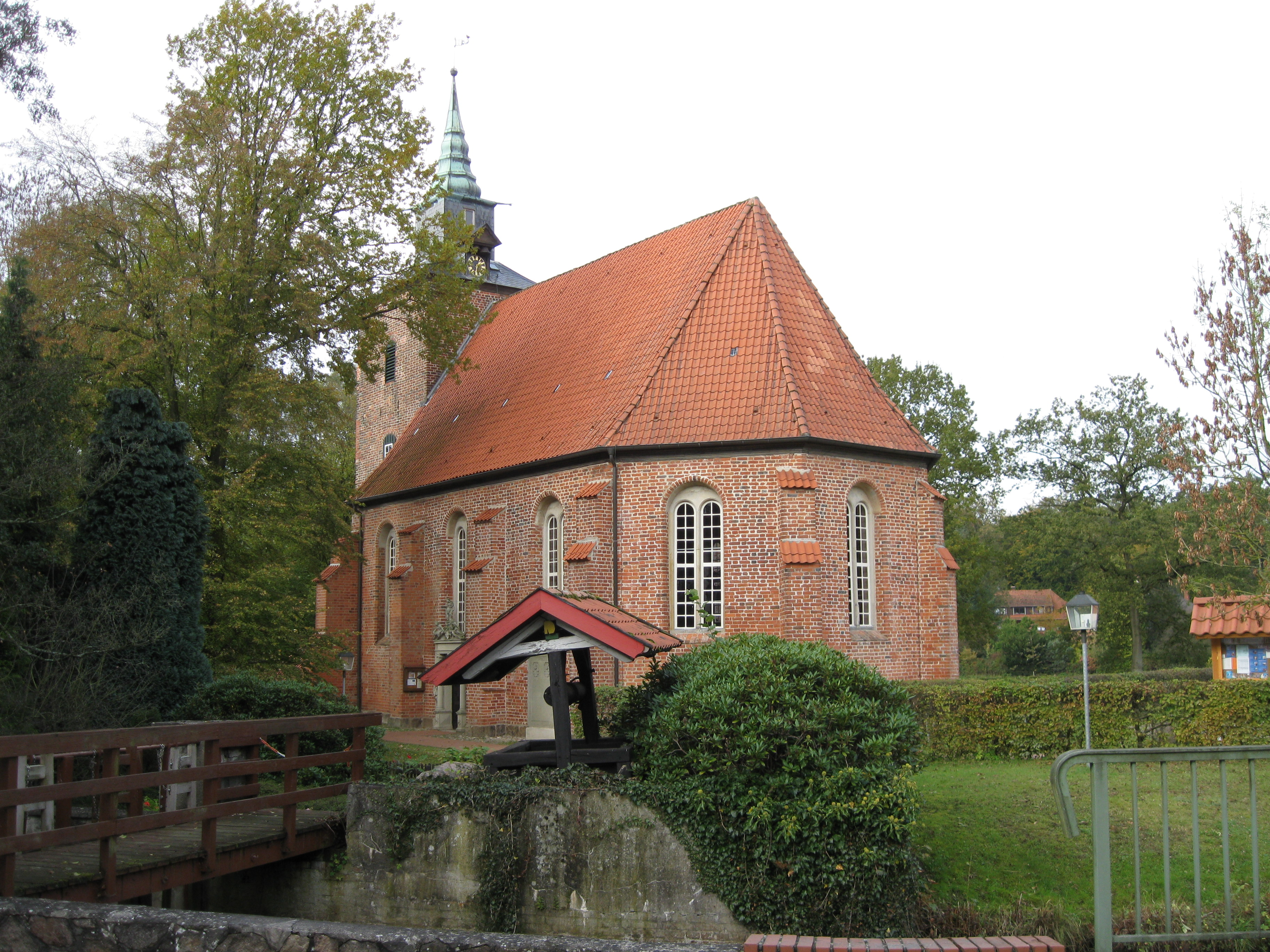 Stellichte, Germany